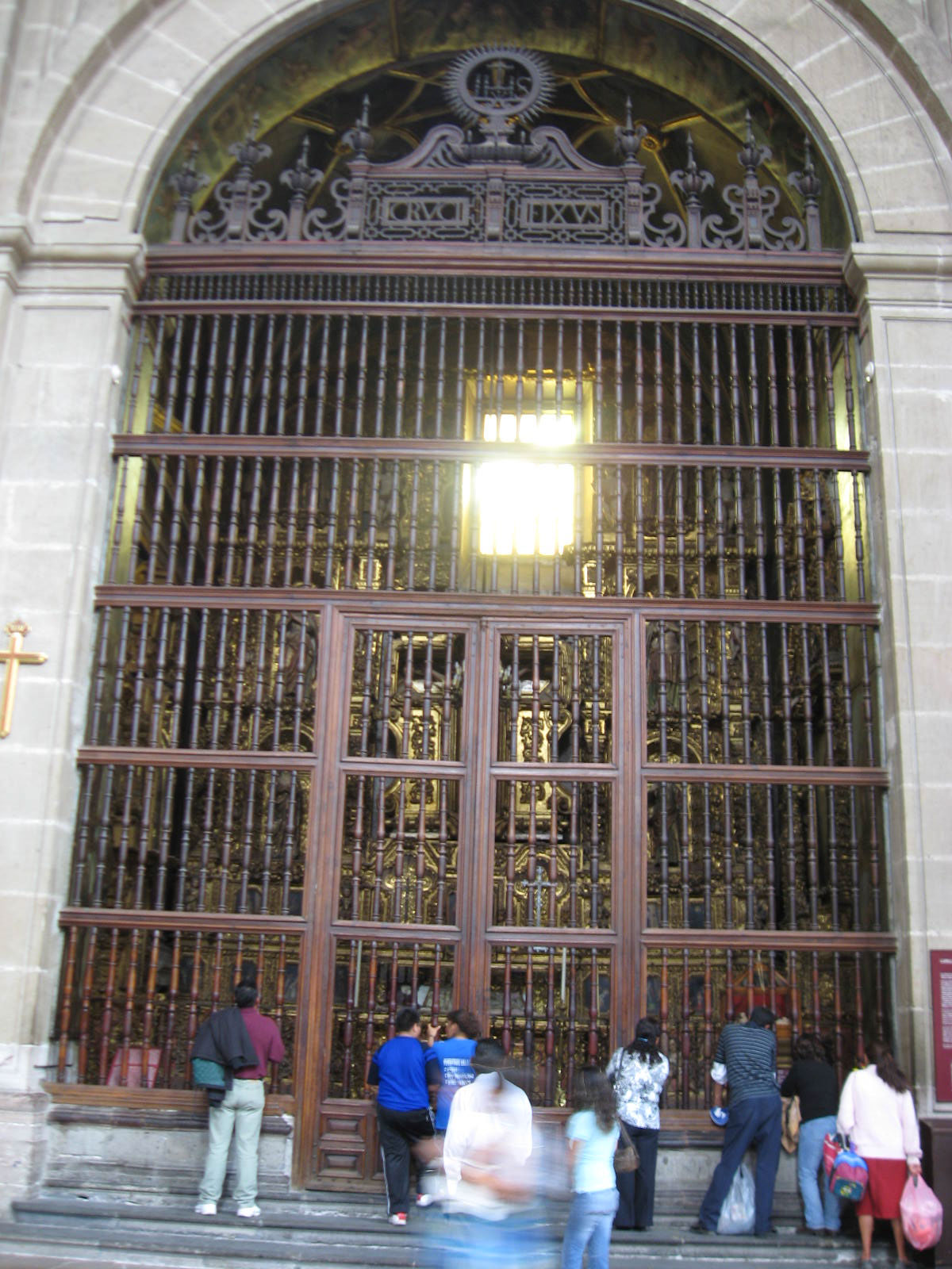 Chapel of the Christ of the Reliquias or of the Conquistadors in the Mexico City Cathedral